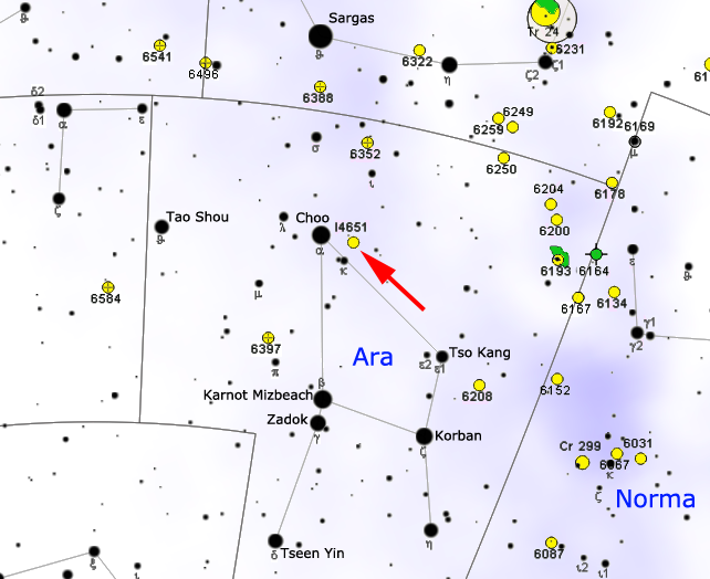 Map of IC 4651